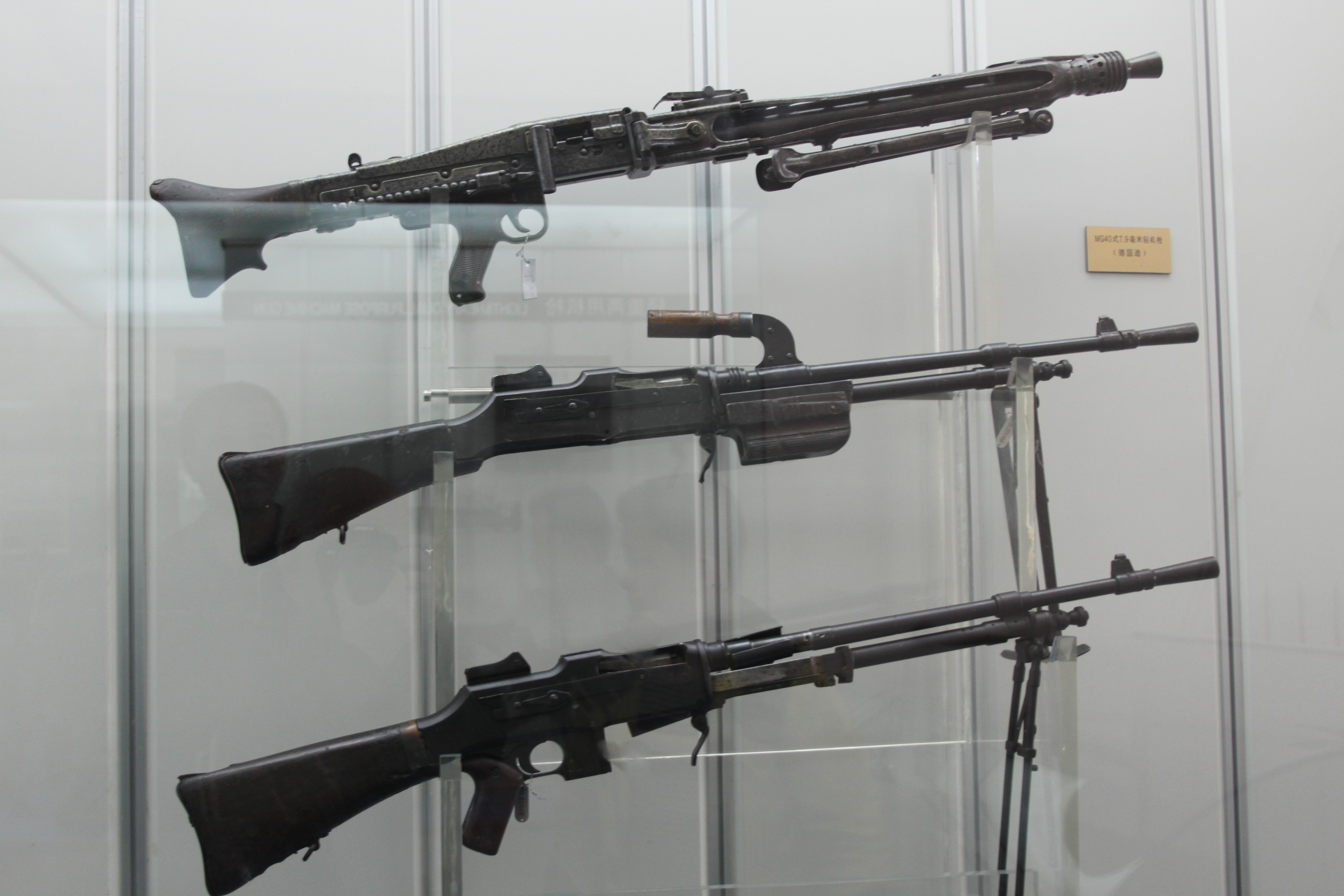 Military Museum: Modern Weapons, Small Arms Gallery. Complete indexed photo collection at .